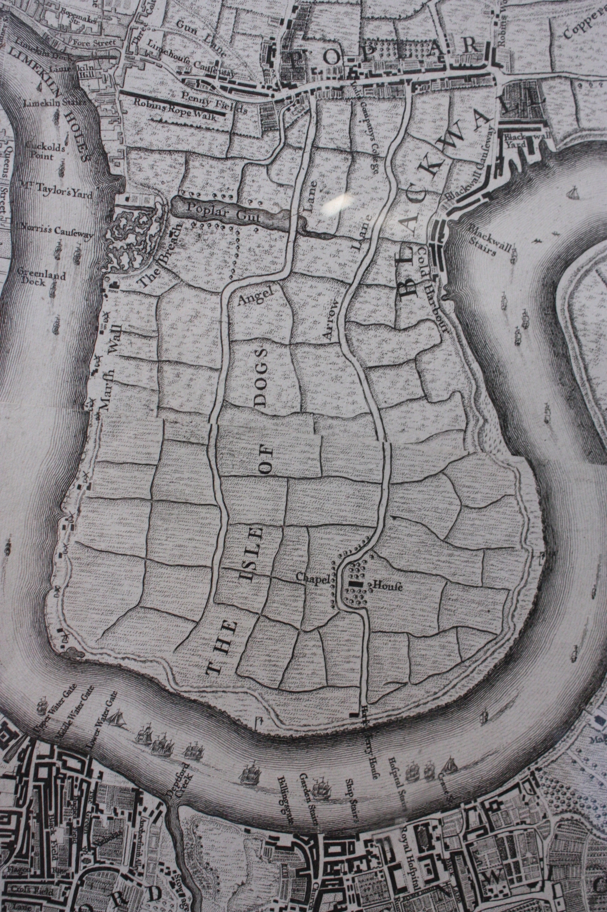 Isle of Dogs as shown in John Rocque's map of London, 1747